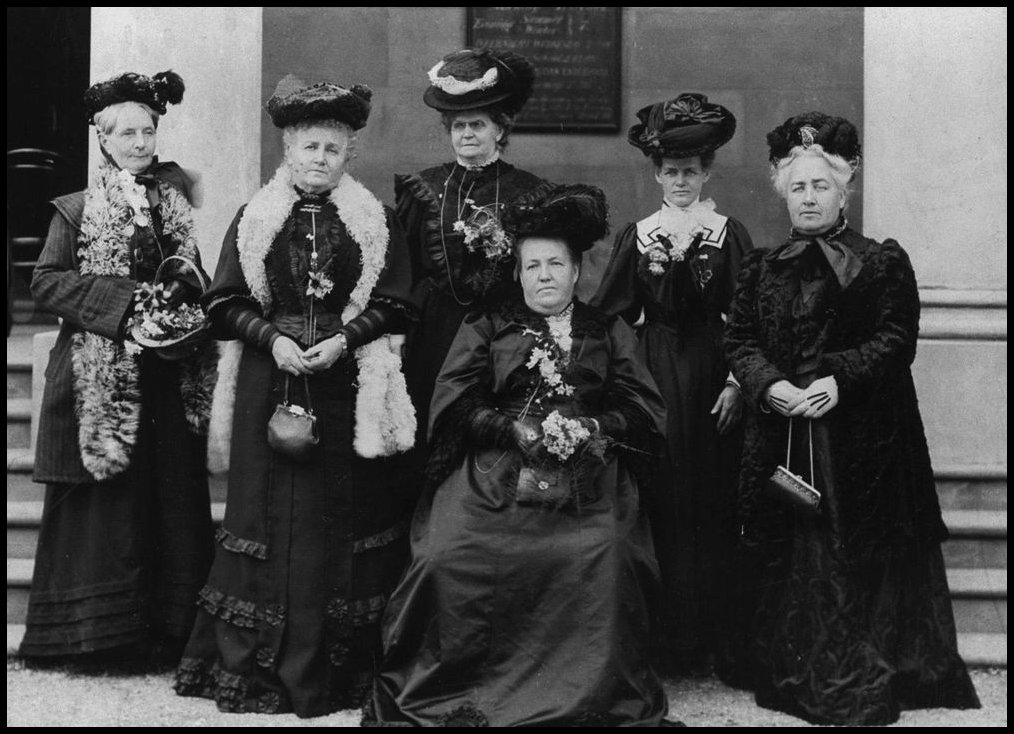 State Officers of the Woman's Christian Temperance Union of South Australia. L - R: Maisie Hone; Mrs. Pengelley; Mrs. Edwards; Lady Julia Holder; Mary Lockwood; Elizabeth Nicholls in 1900.